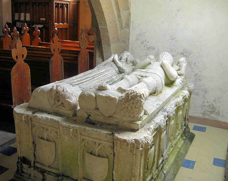 The tomb of Goronwy ap Tudur in St Gredifael Church, Anglesey, Wales